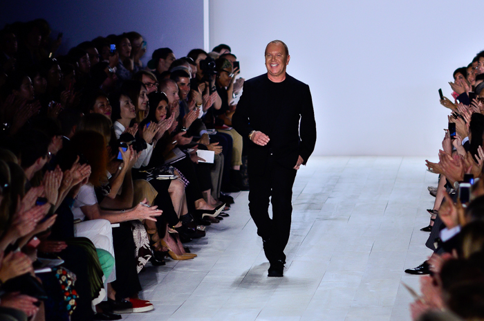 Michael Kors receives applause at the conclusion of his Spring/Summer 2014 show at New York Fashion Week, September 2013.